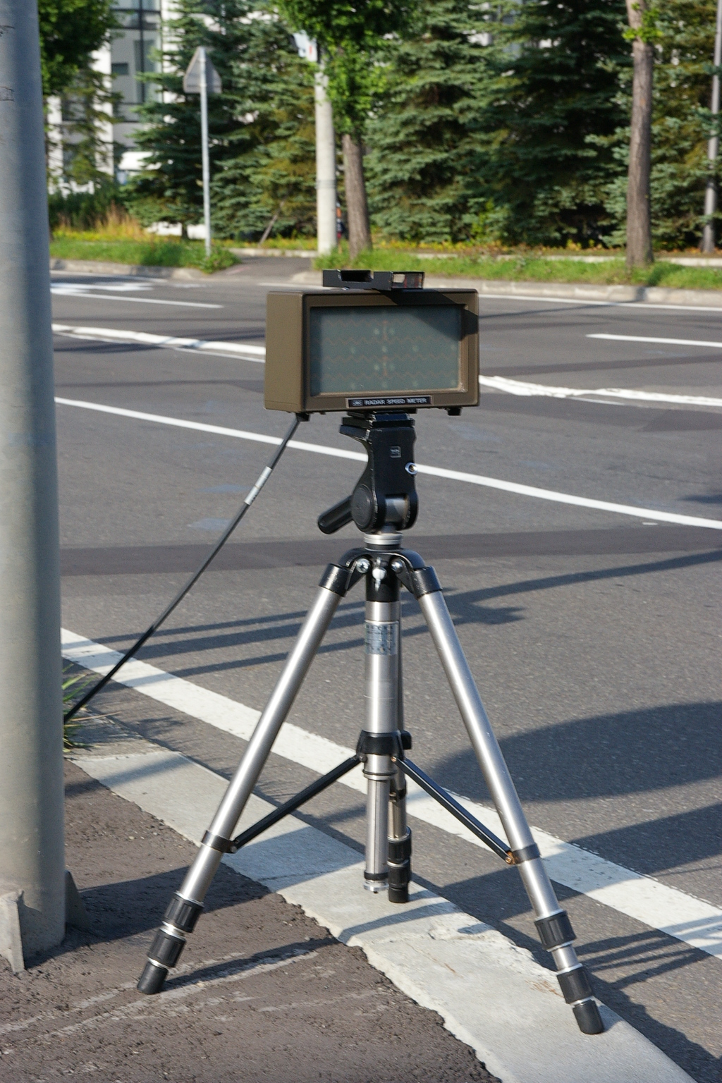 JMA-220 speed measurement unit.